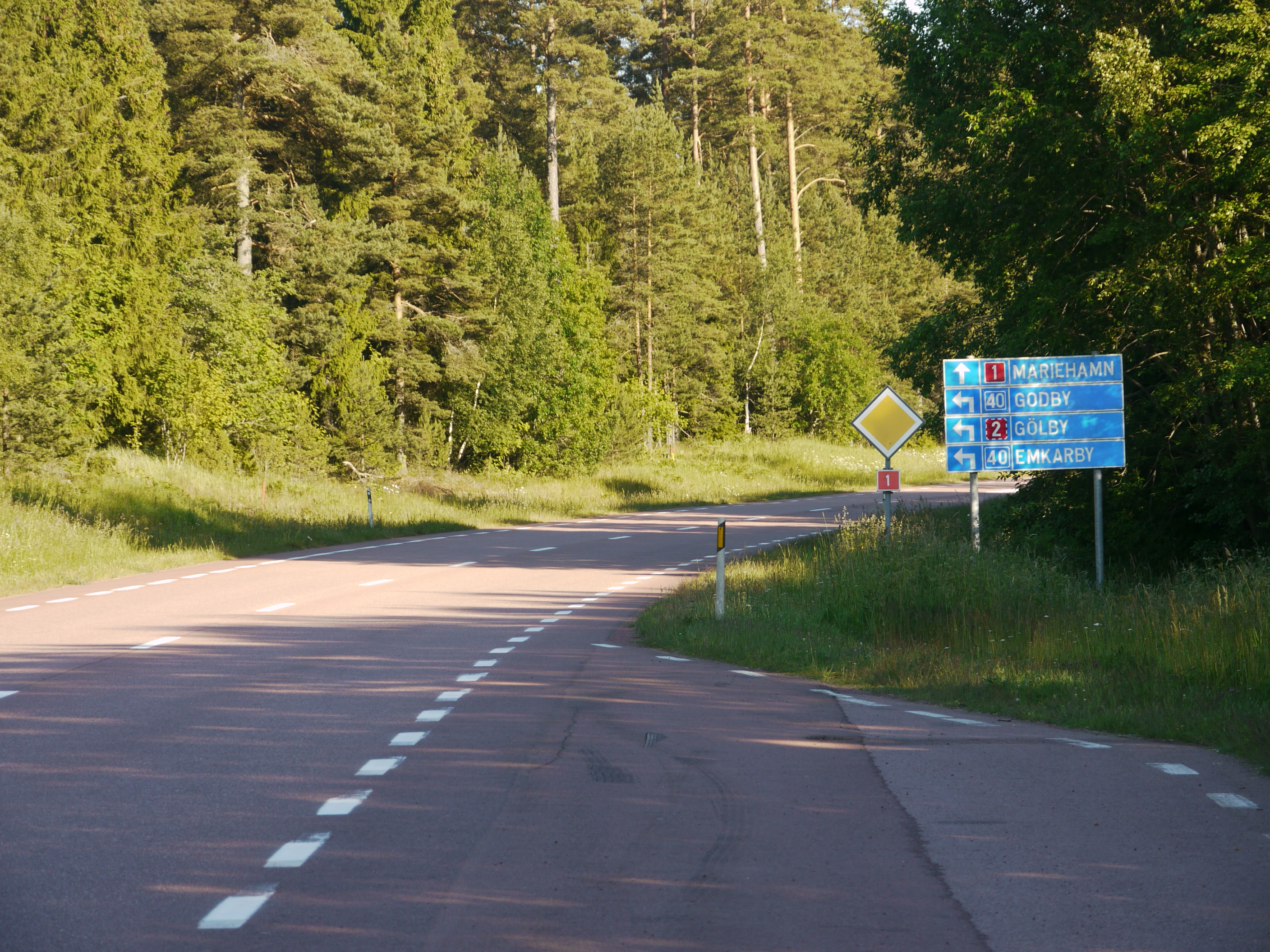 Main road 1 (huvudväg 1), from Berghanm to Mariehamn, in Hammarland, Åland, Finland